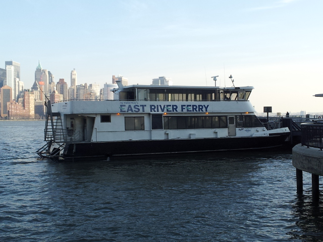 East River Ferry in Jersey City